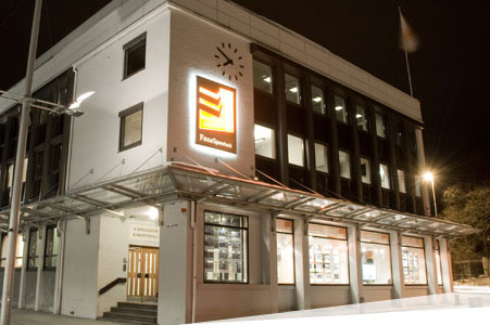 Fana Sparebank